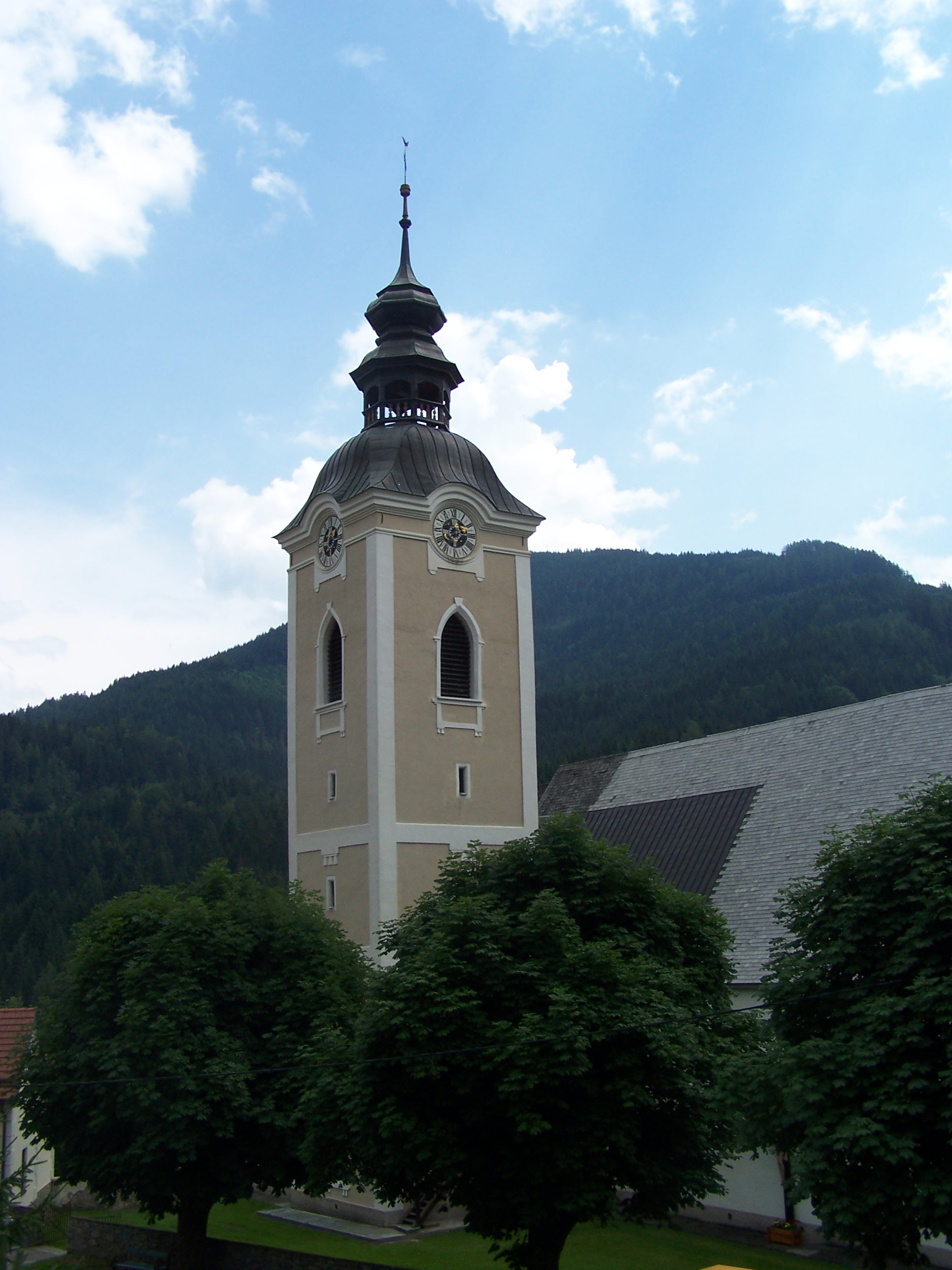 The church of Metnitz, Carinthia, Austria Furlan: La glesie di Metnitz, Carintie, Austrie